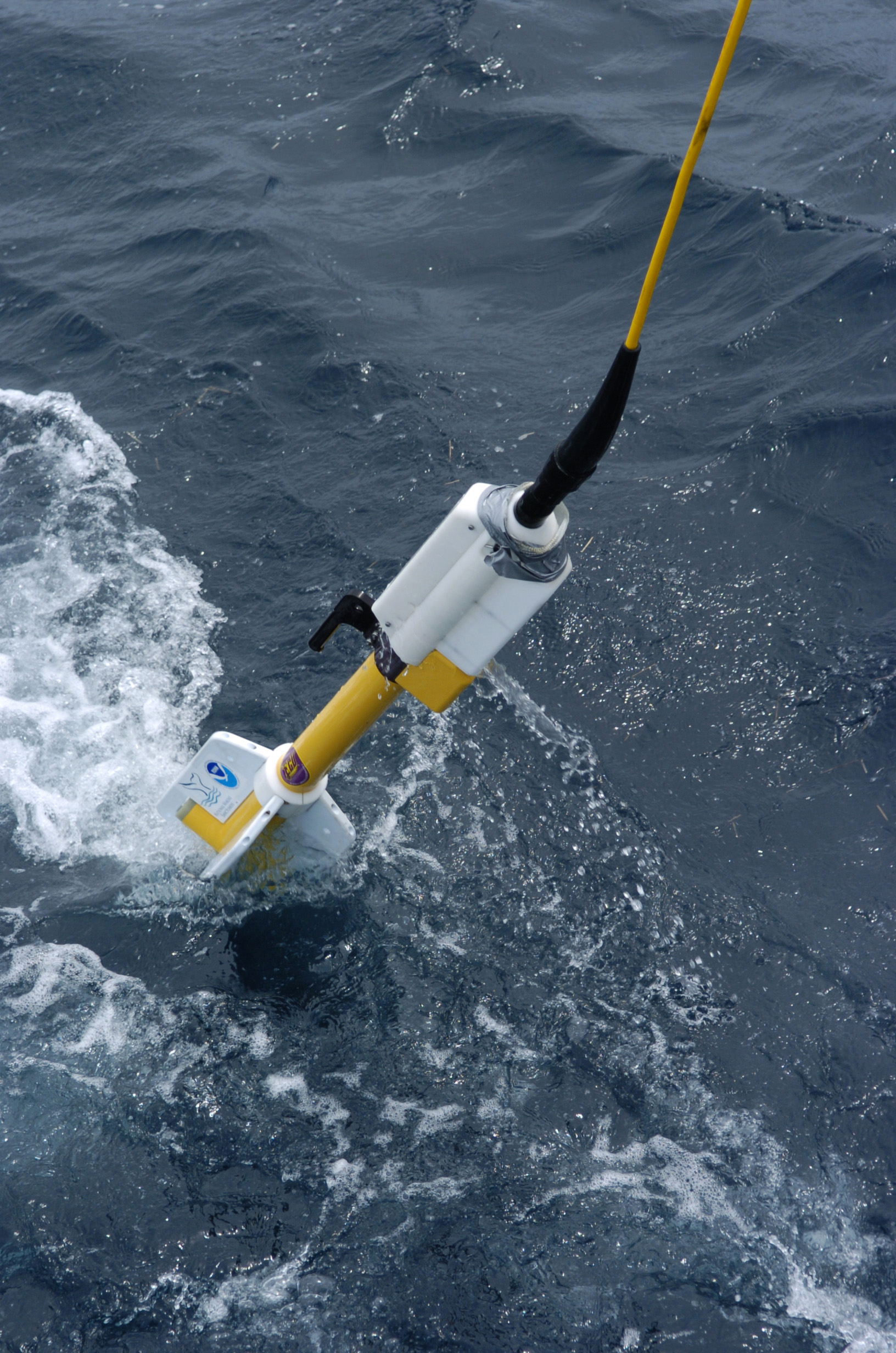 The Geometrics G-882 Magnetometer will be used during the hunt for the Navy’s first submarine the "Alligator"in an area off Cape Hatteras where the Civil War era vessel was lost during a fierce storm in 1863. The high-tech underwater search is being conducted by the National Oceanic and Atmospheric Administration NOAA, with support from the Office of Naval Research ONR.